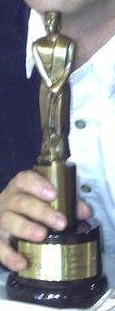 Martín Fierro Award